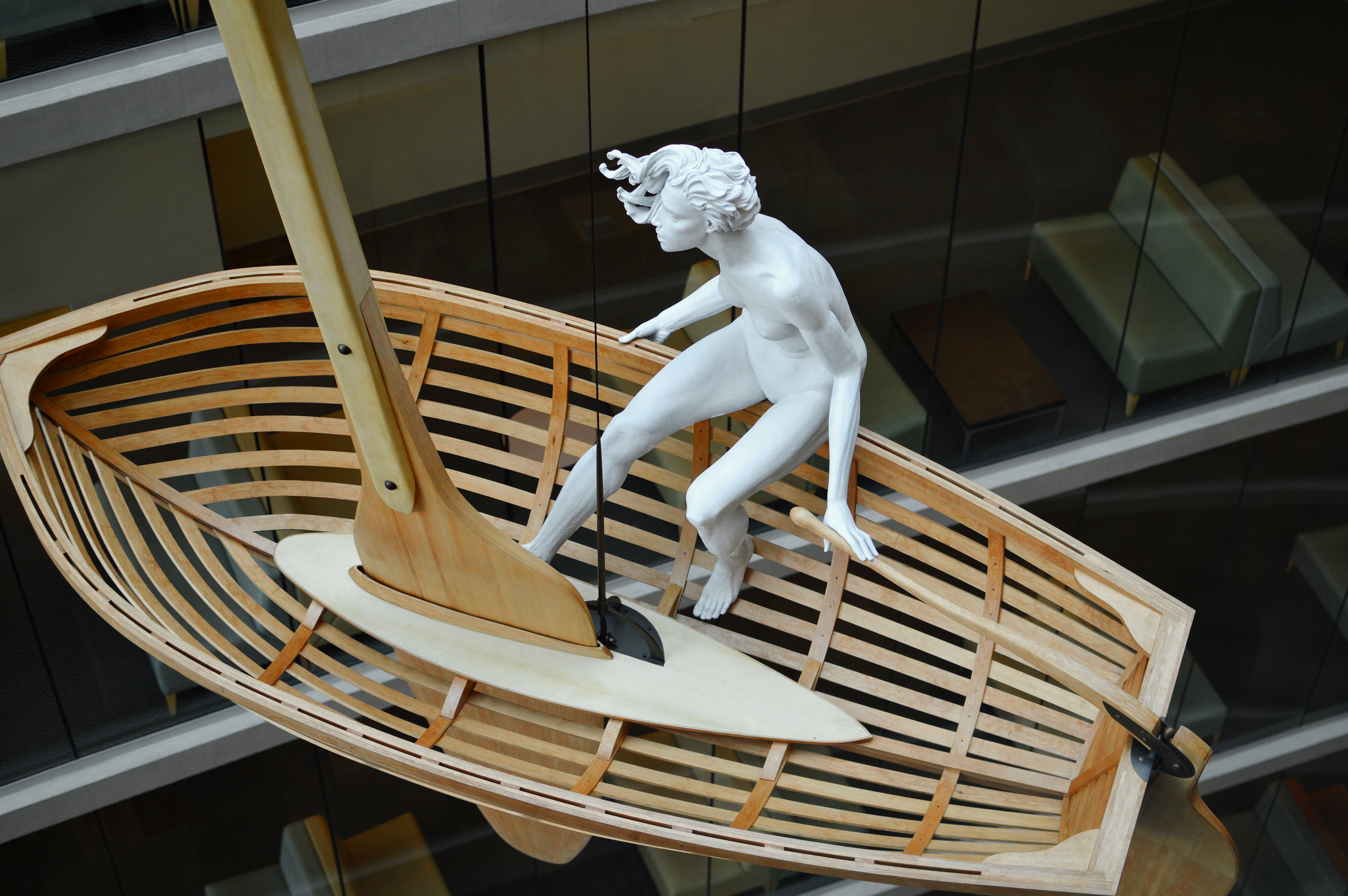 Detail image of David Robinson's suspended kinetic sculpture Windward Calm installed at the Gordon and Leslie Diamond Healthcare Centre in Vancouver, Canada. Photo by Sage MacGillivray